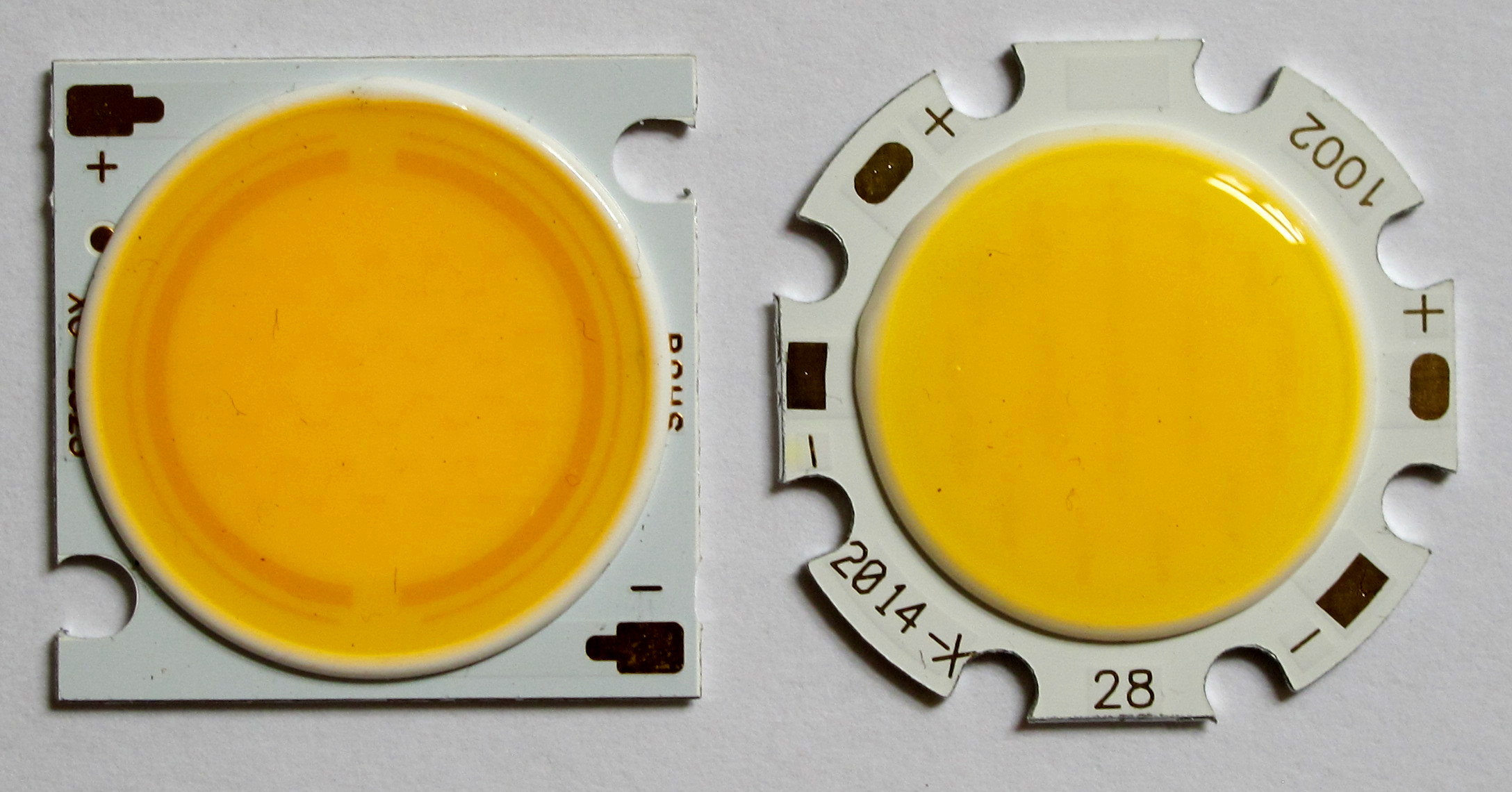 Two high power COB LEDs with 20W and (left) and 10W (right)